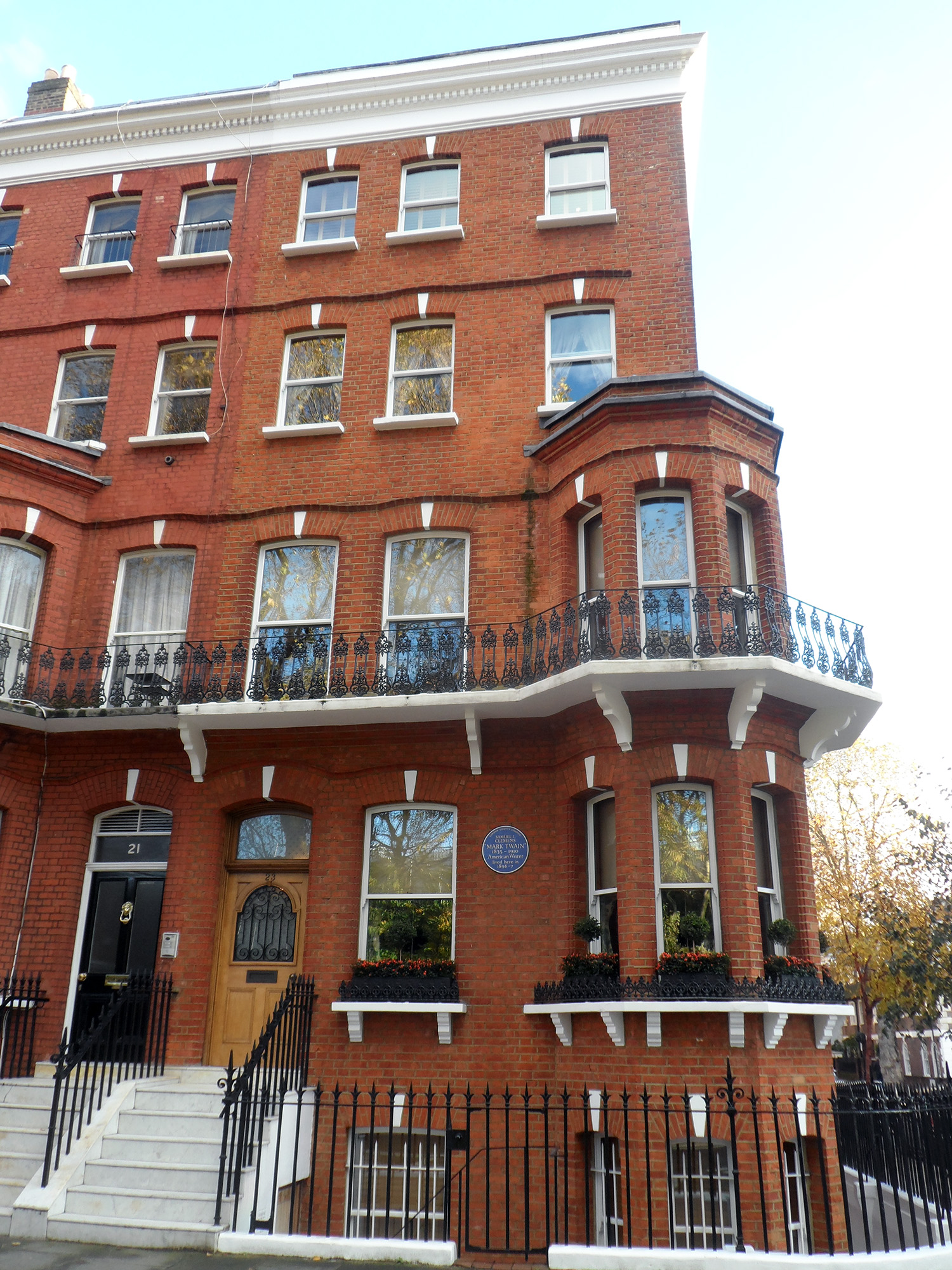 SAMUEL L. CLEMENS MARK TWAIN 1835-1910 American Writer lived here in 1896-7